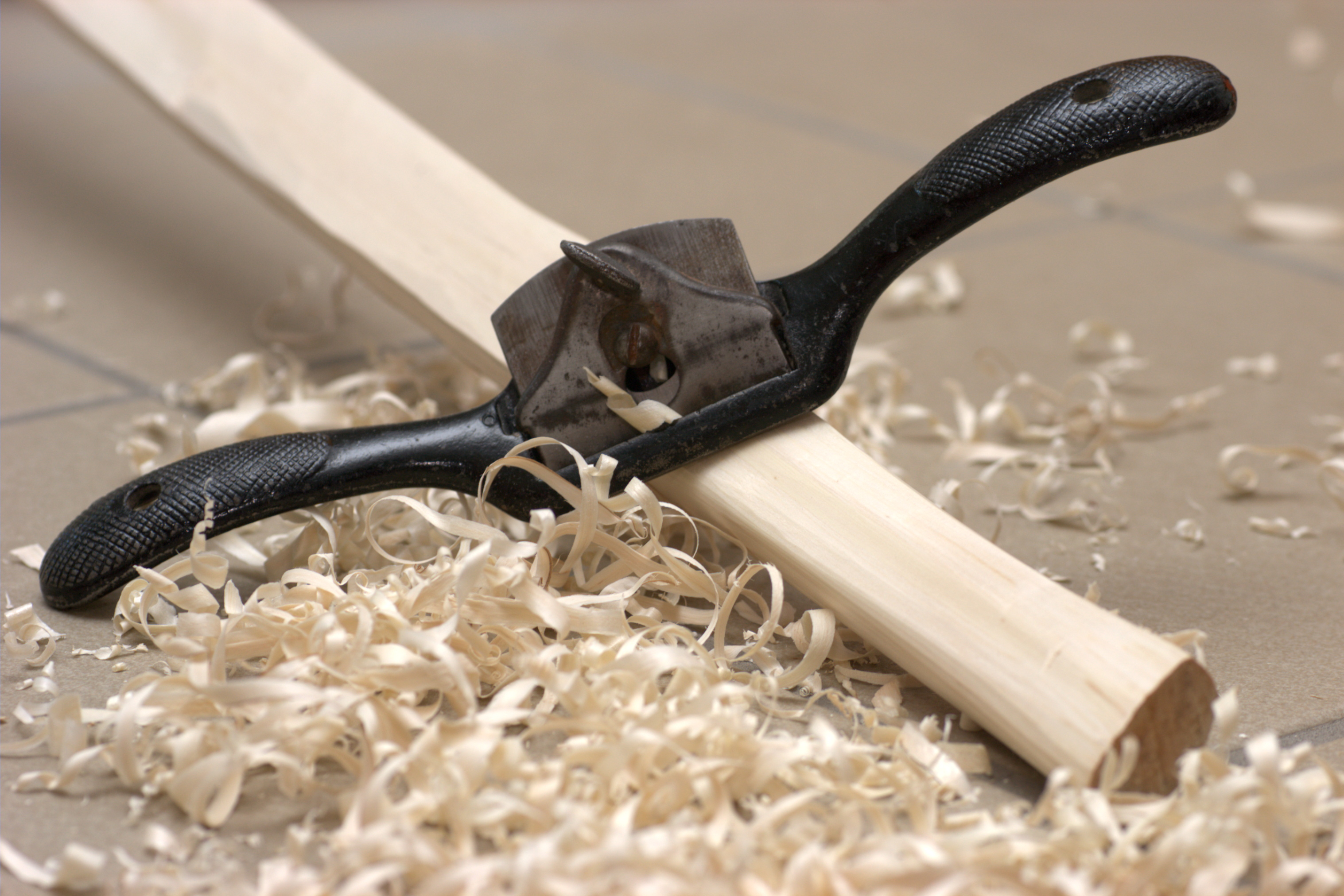 Spokeshave and swarf. The front-side of the piece of wood has been rounded with the spokeshave.